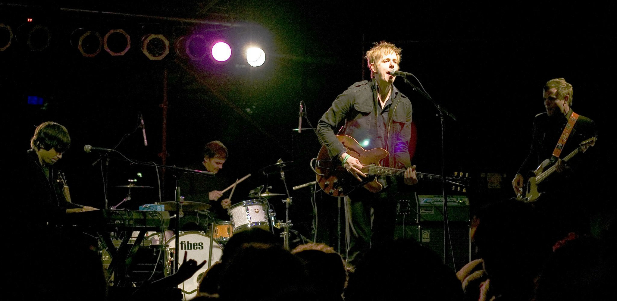 Spoon performing in Austin, Texas at Fun Fun Fun Fest (cropped from flickr photo, tone map adjusted)